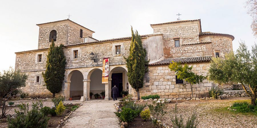 Iglesia de San Sebastián en Pioz. Guadalajara. Castilla la Mancha. España